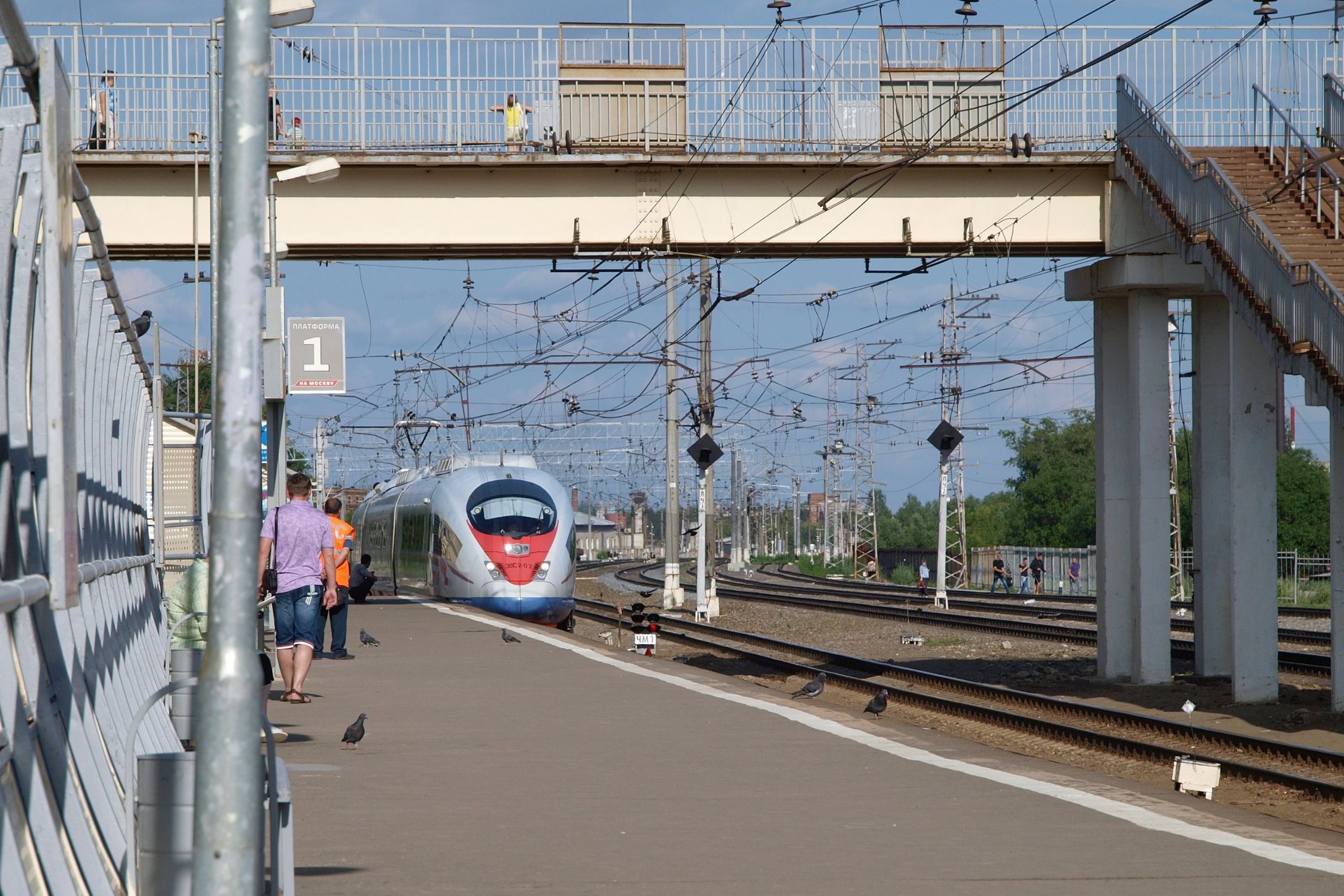 Sapsan (Siemens Velaro) express from Nizhny Novgorod to Moscow passes Pavlovsky Posad station. No pidgeons were hurt in this photo shoot. I hope so.